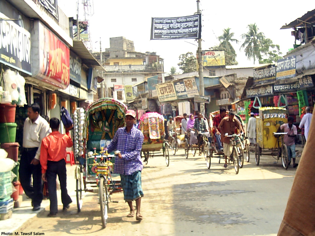 Kandirpar to Manoharpur by Rickshaw